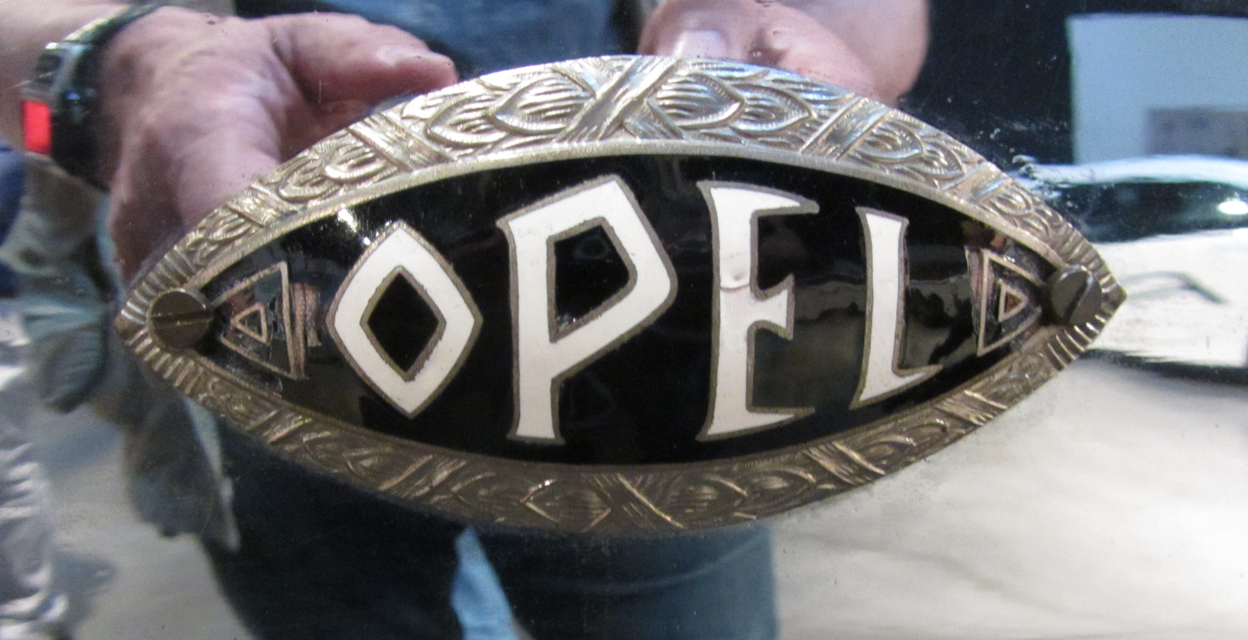 The Opel eye in good hands ... an Opel logo in the 1920ies